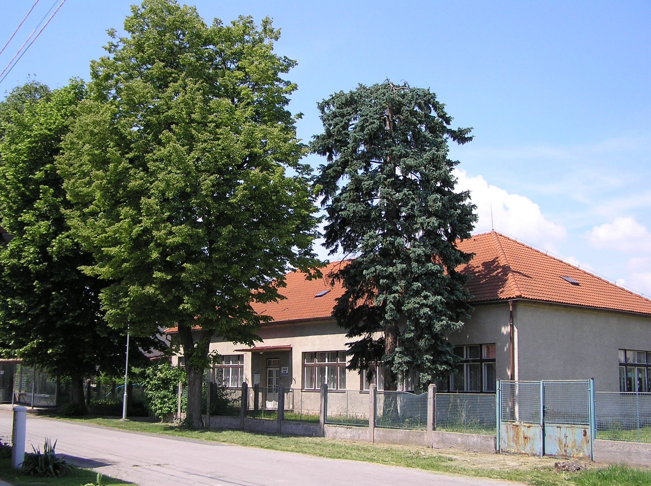 Kamenné Zboží, the former school, now Municipal House